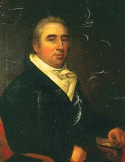 William Marbury, plaintiff in Marbury v. Madison.